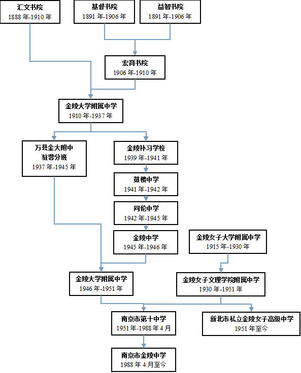 History of Jinling High School(Nanjing, China).